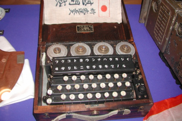 Japanese copy of the German Enigma machine, on display at the National Cryptologic Museum, Maryland, USA. The Japanese developed an Enigma clone, codenamed GREEN by American cryptographers, although it was little used.